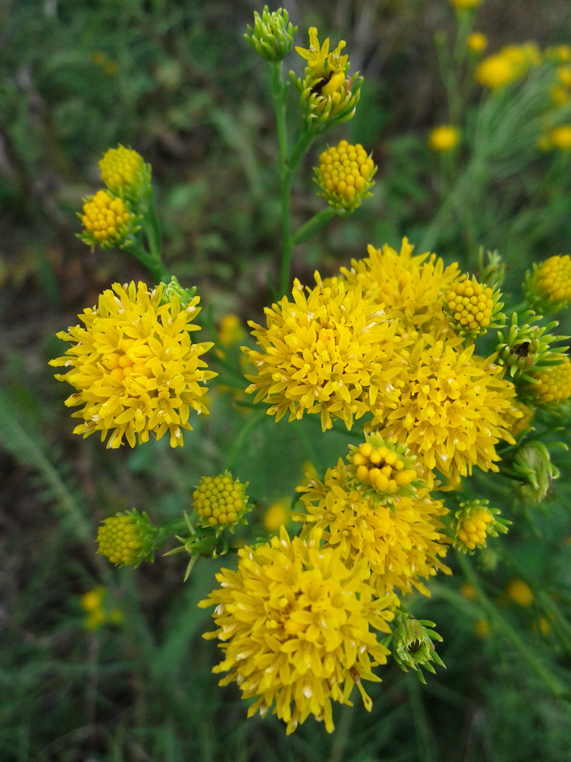 Inflorescence Taxonym: Galatella linosyris ss Fischer et al. EfÖLS 2008 ISBN 978-3-85474-187-9 Location: Alte Schanzen, Floridsdorf, Vienna - ca. 225 m a.s.l. Habitat: dry grassland